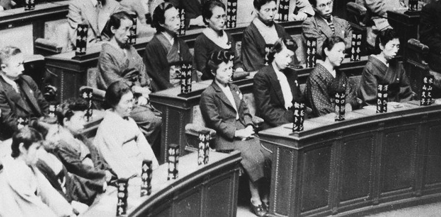 Thirty-nine women were elected for the first time to the House of Representatives in the first post-war general election.